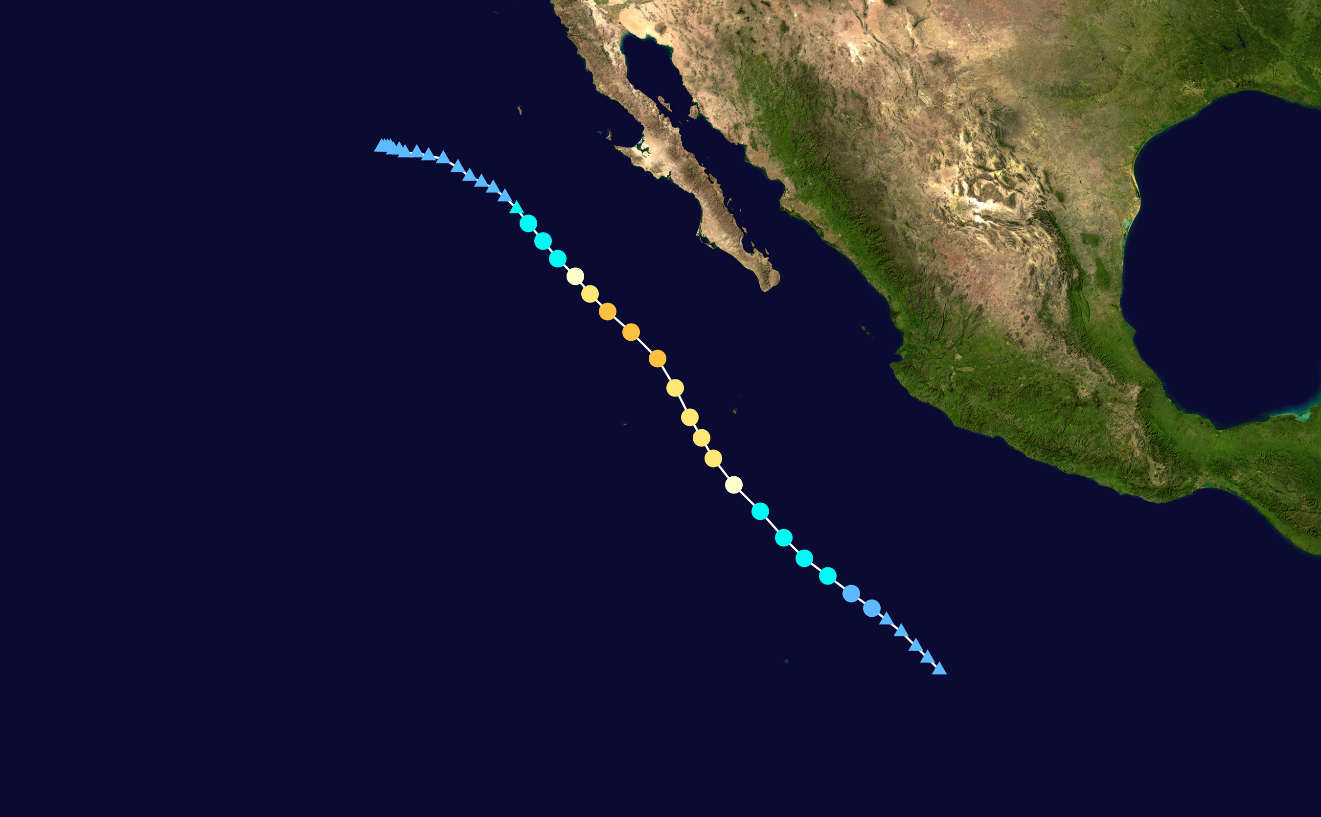 Track map of Hurricane Linda of the 2015 Pacific hurricane season. The points show the location of the storm at 6-hour intervals. The colour represents the storm's maximum sustained wind speeds as classified in the Saffir–Simpson scale (see below), and the shape of the data points represent the nature of the storm, according to the legend below. Saffir–Simpson scale Tropical depression≤38 mph≤62 km/h Category 3111–129 mph178–208 km/h Tropical storm39–73 mph63–118 km/h Category 4130–156 mph209–251 km/h Category 174–95 mph119–153 km/h Category 5≥157 mph≥252 km/h Category 296–110 mph154–177 km/h Unknown Storm type Tropical cyclone Subtropical cyclone Extratropical cyclone / Remnant low / Tropical disturbance / Monsoon depression